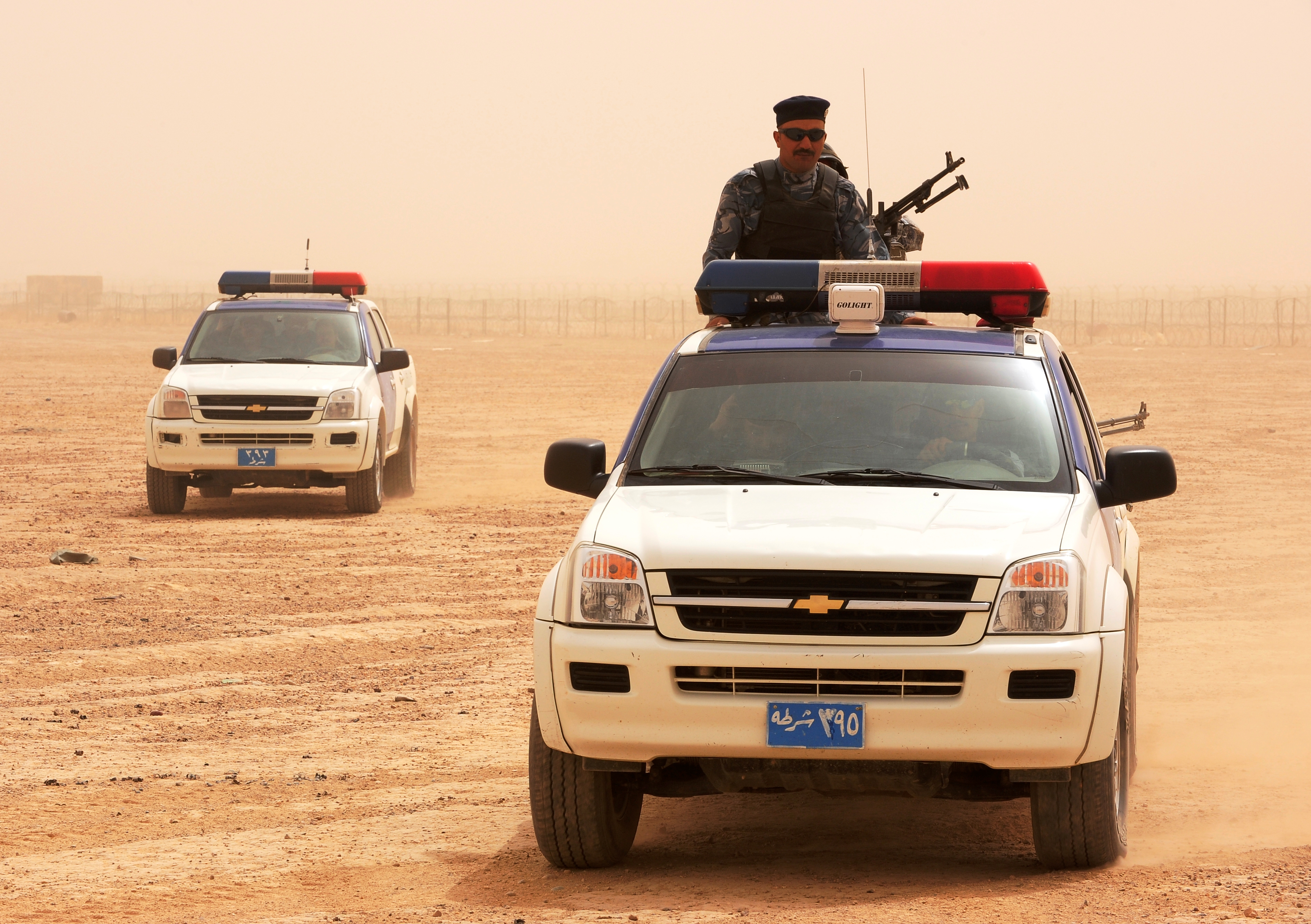 Police officers from Sequor, Iraq, arrive at the firing range at Contingency Operating Base Speicher, Tikrit, Iraq, July 15, 2009.